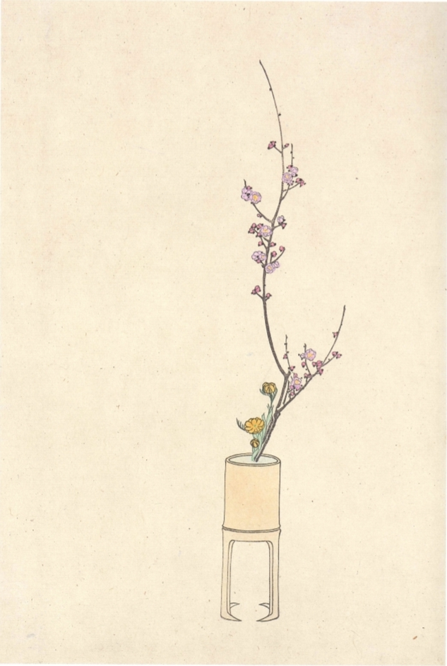 Coloured diagram #11 of shōka works by the 40th headmaster Ikenobō Senjō, from the Sōka Hyakki.